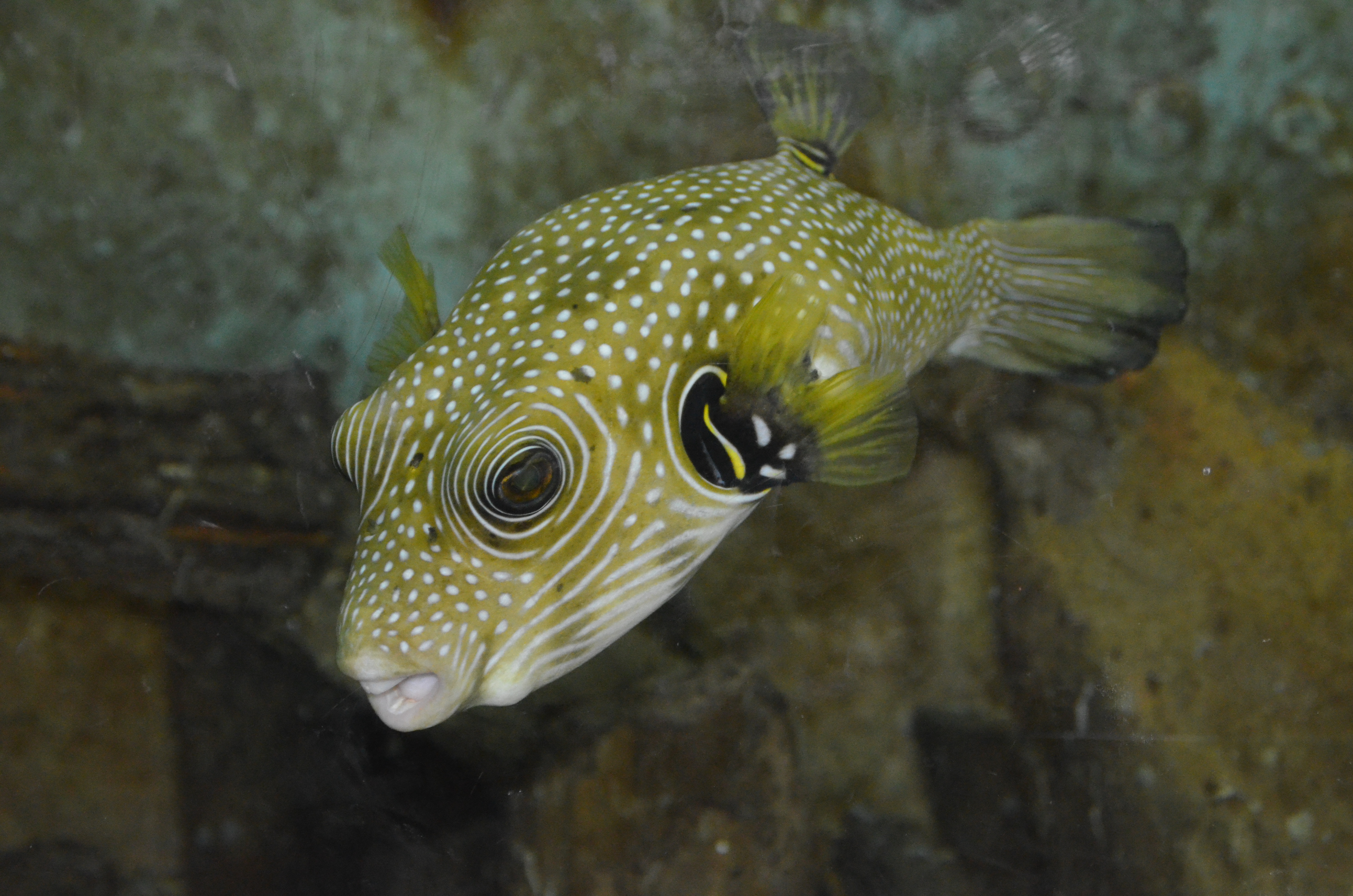 White spotted puffer